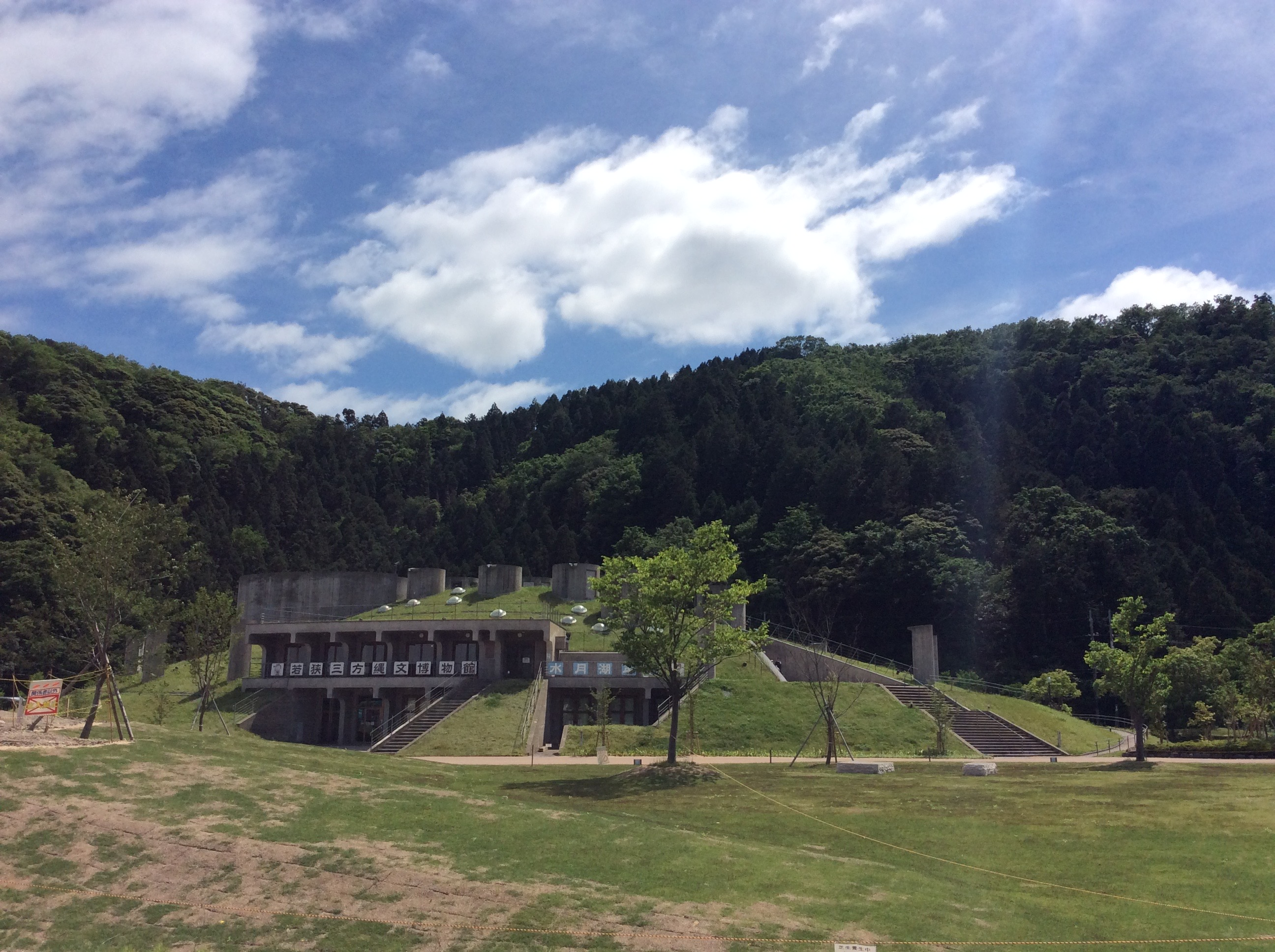 Exterior view of Wakasa Mikata Jomon Museum